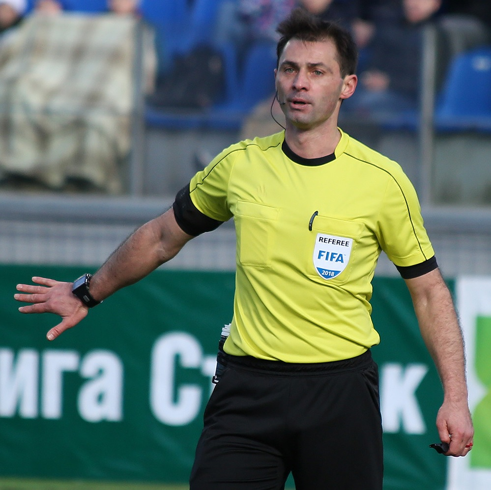 Aleksei Eskov refereeing a game between FC Tosno and FC Amkar Perm.